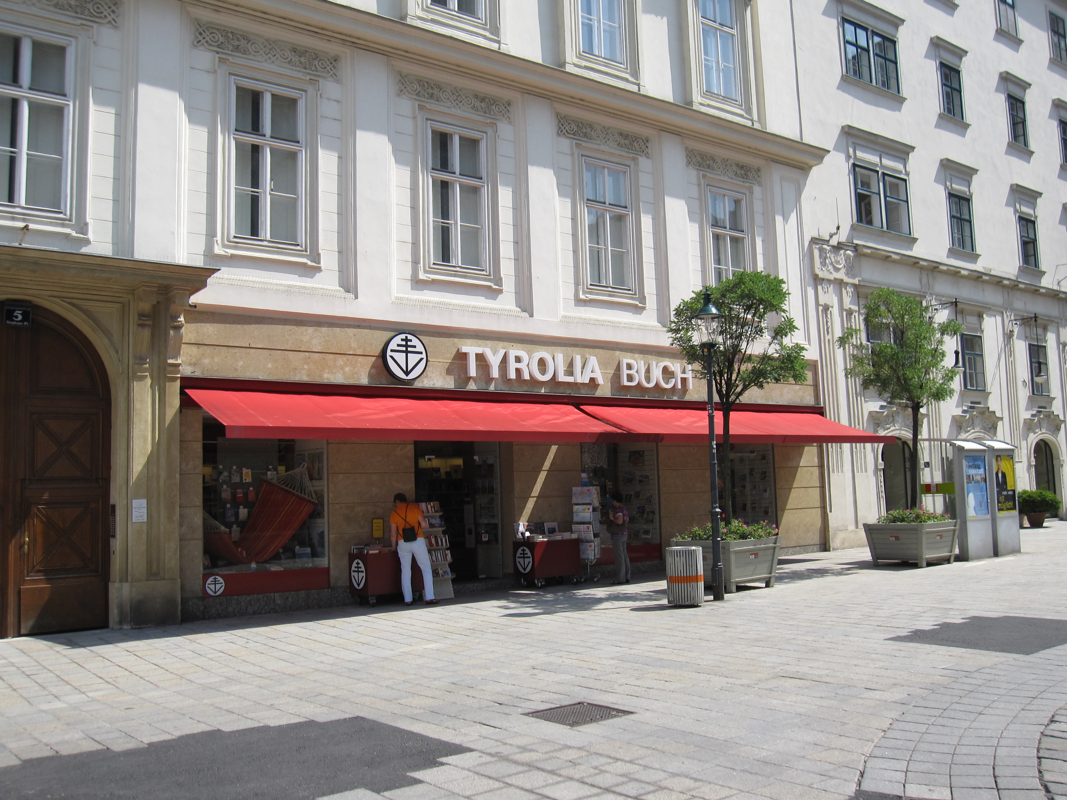 Verlagsanstalt Tyrolia in Vienna's I. district